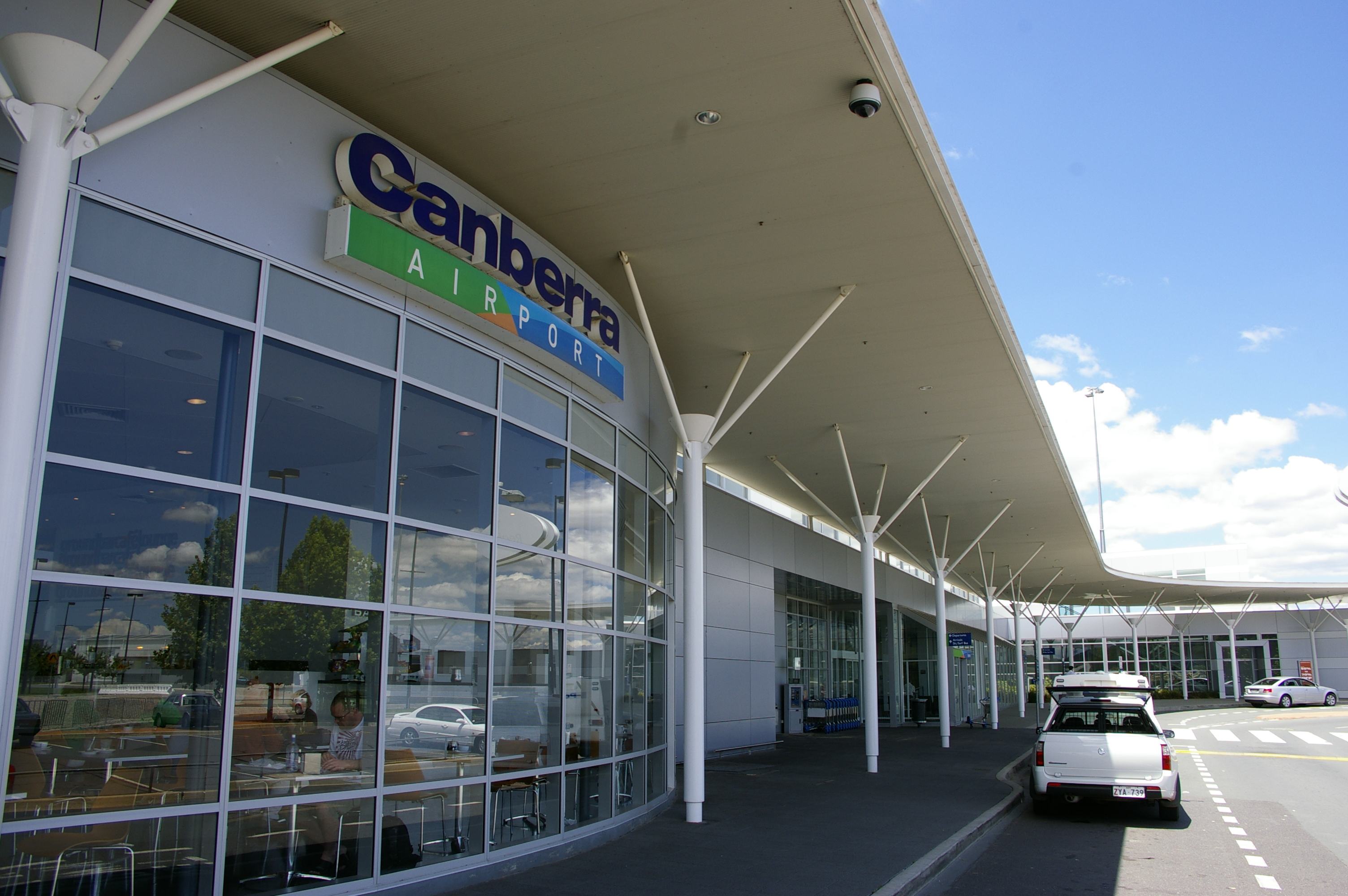 Canberra Airport.